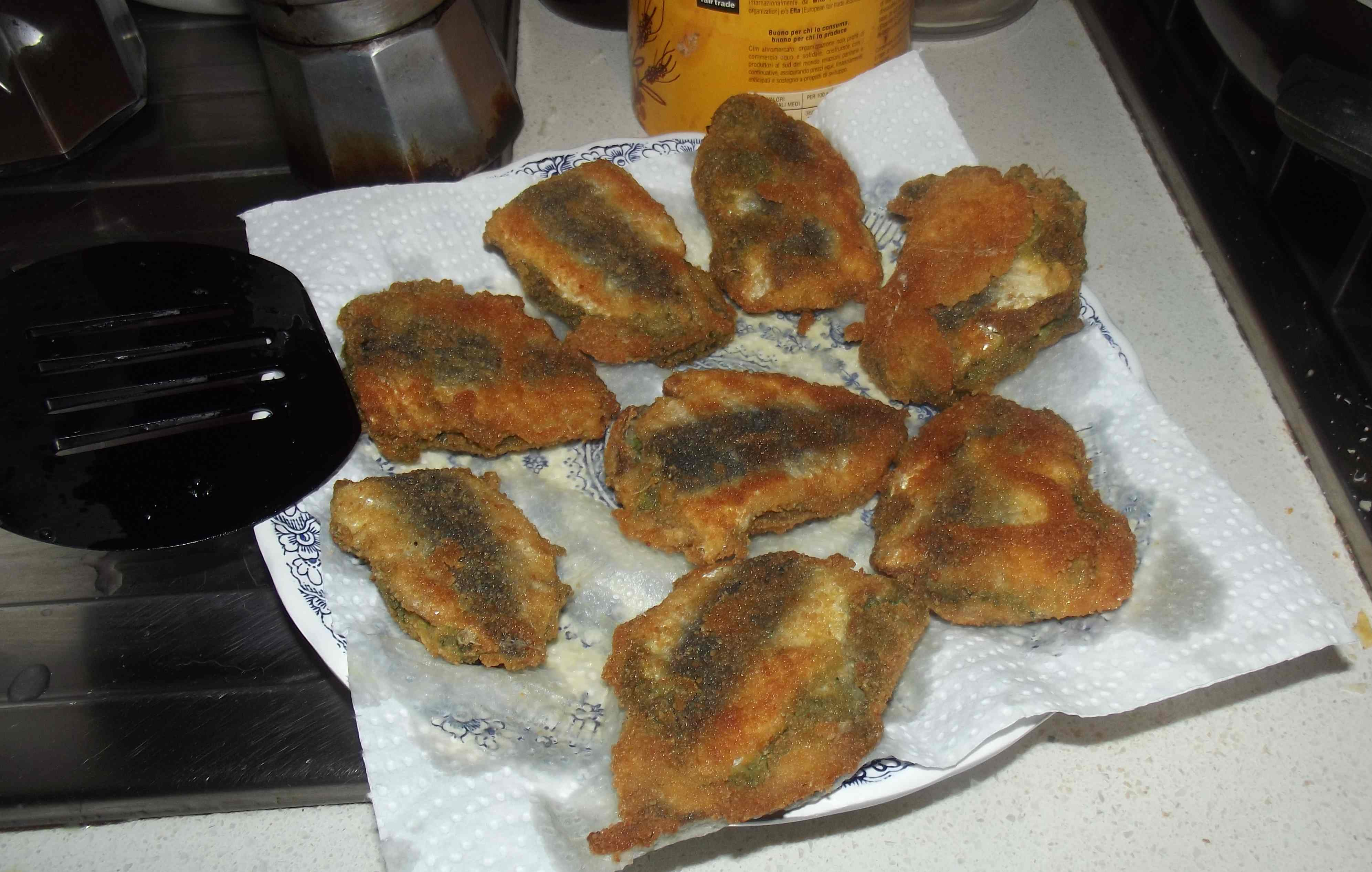 Stuffed sardines: excess oil removal